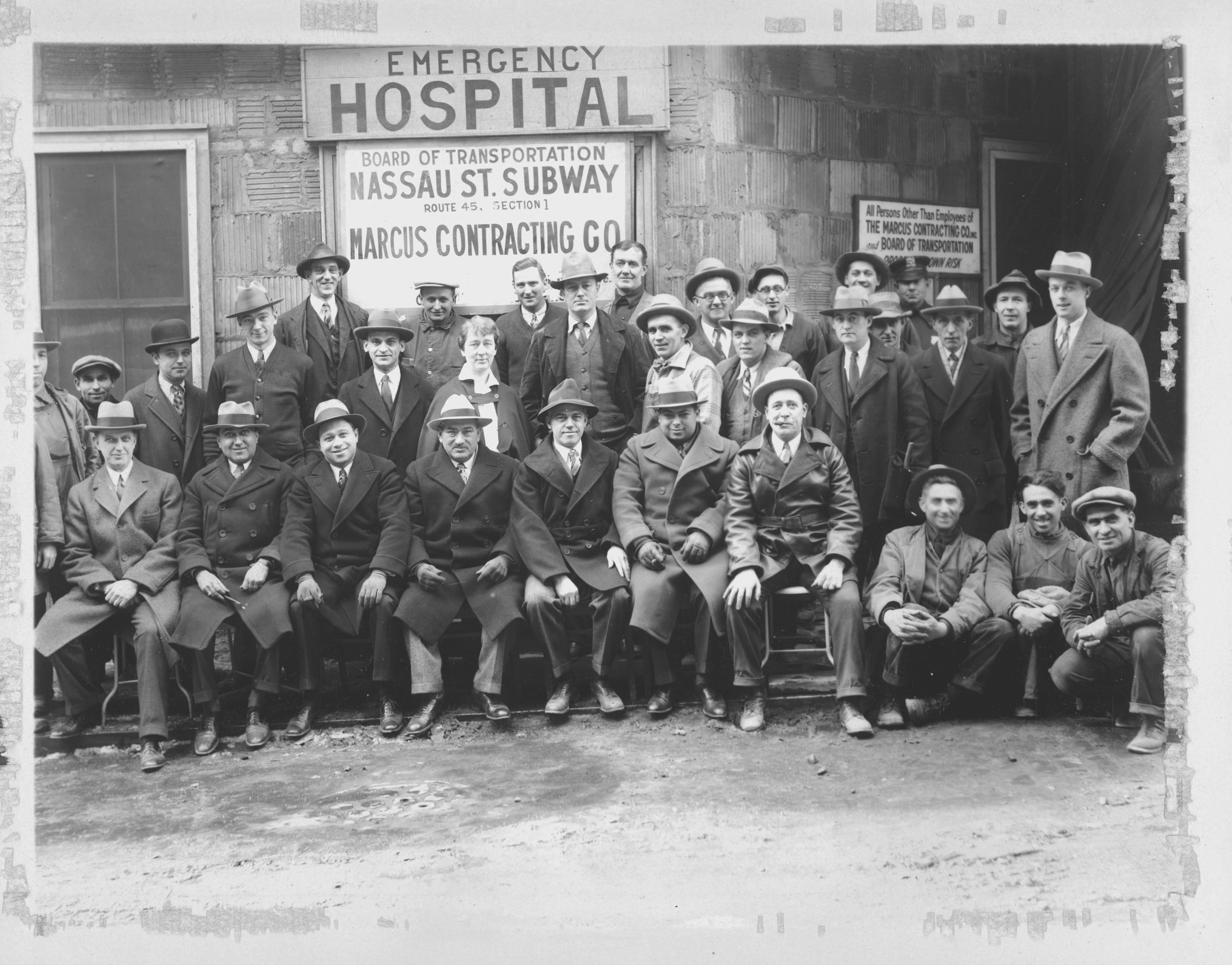 Group photo taken during construction of the Nassau St Subway, Circa 1928. Front row seated: 3rd from left - Bernard Marcus; 4th from left - Louis Marcus, President Marcus Contracting; 5th from left - Hyman Marcus; 6th from left - Mandel Marcus (later President of Marcus Substructure); 6th from left - Sam Bellows (Son In Law)